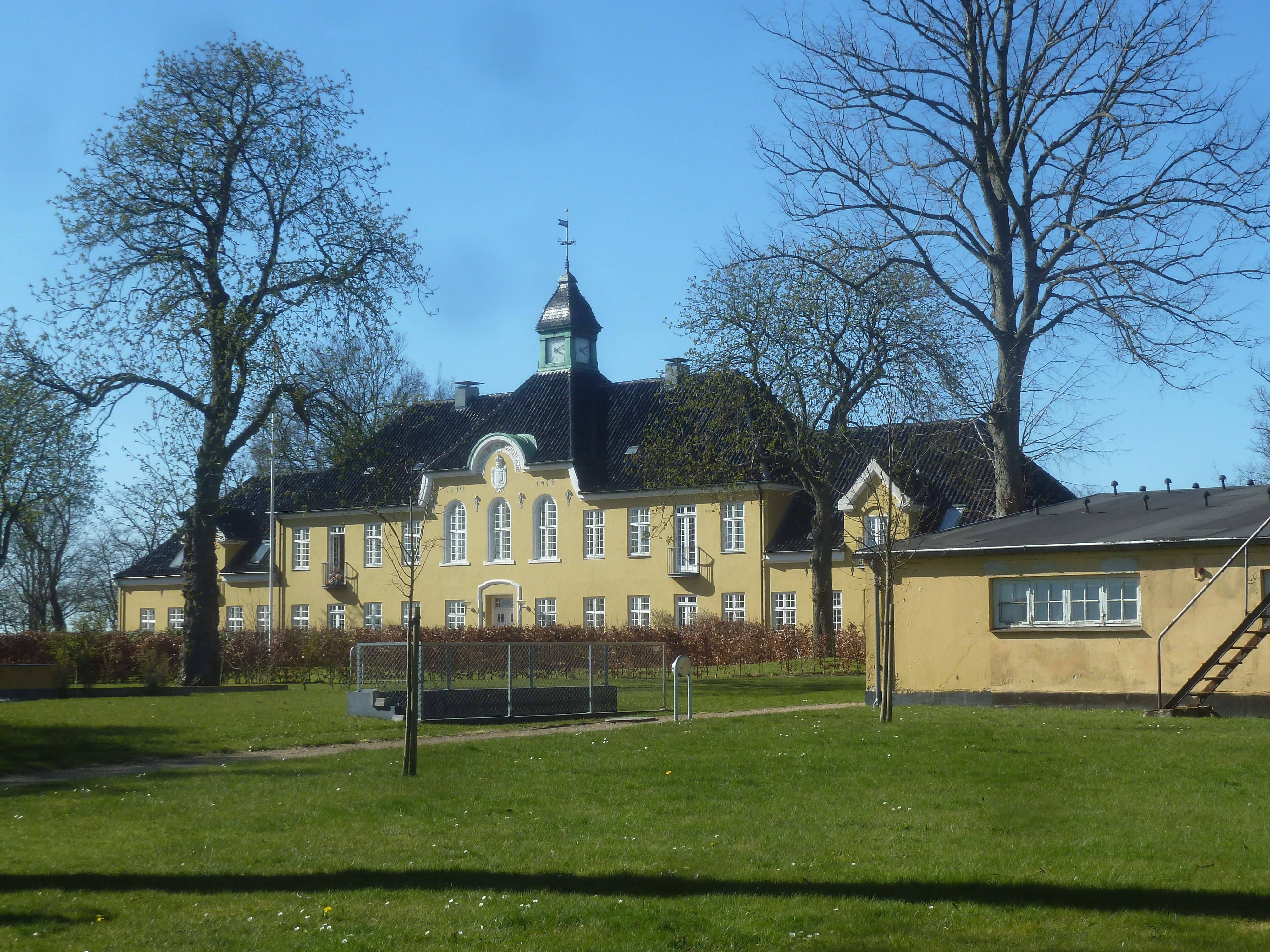 The former main Building of Nordjejren (now Laanshøj( at Flyvestation Værløse in Fyresø Municipality, Denmark